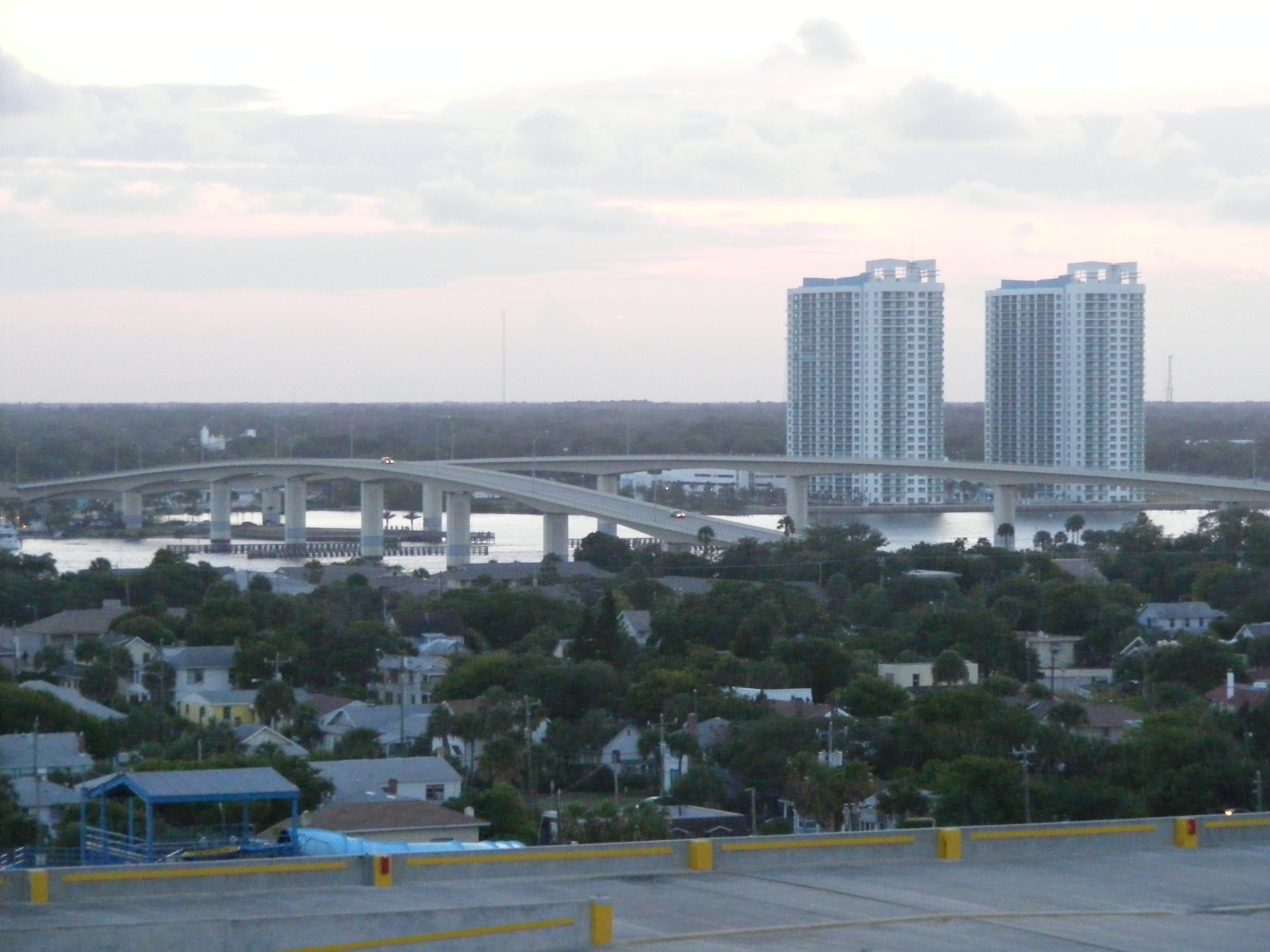 View of the twin spans of the Seabreeze Bridge in Daytona Beach, Volusia County, Florida, looking inland.